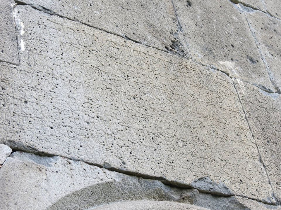 Akhtala st. George church Georgian wall writing